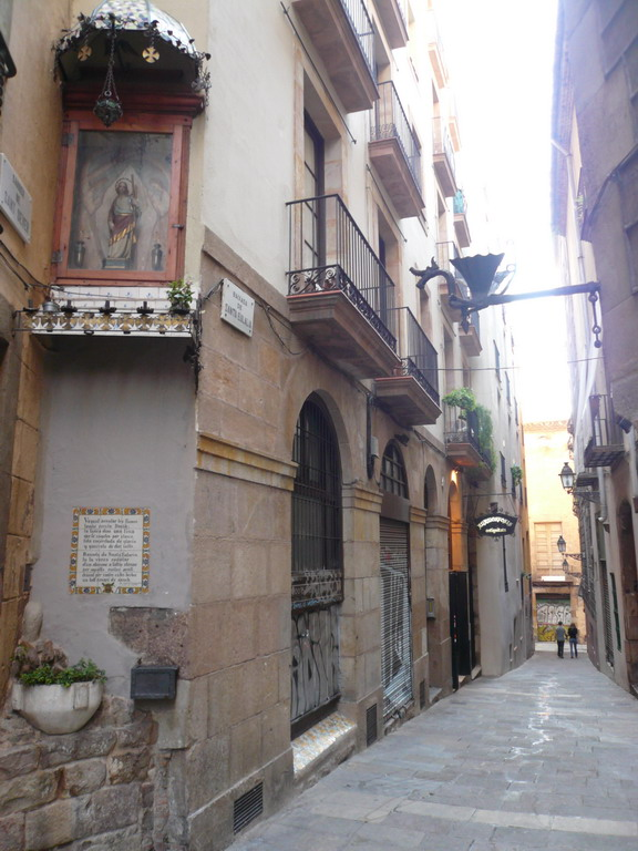 Baixada de Santa Eulàlia, Barcelona